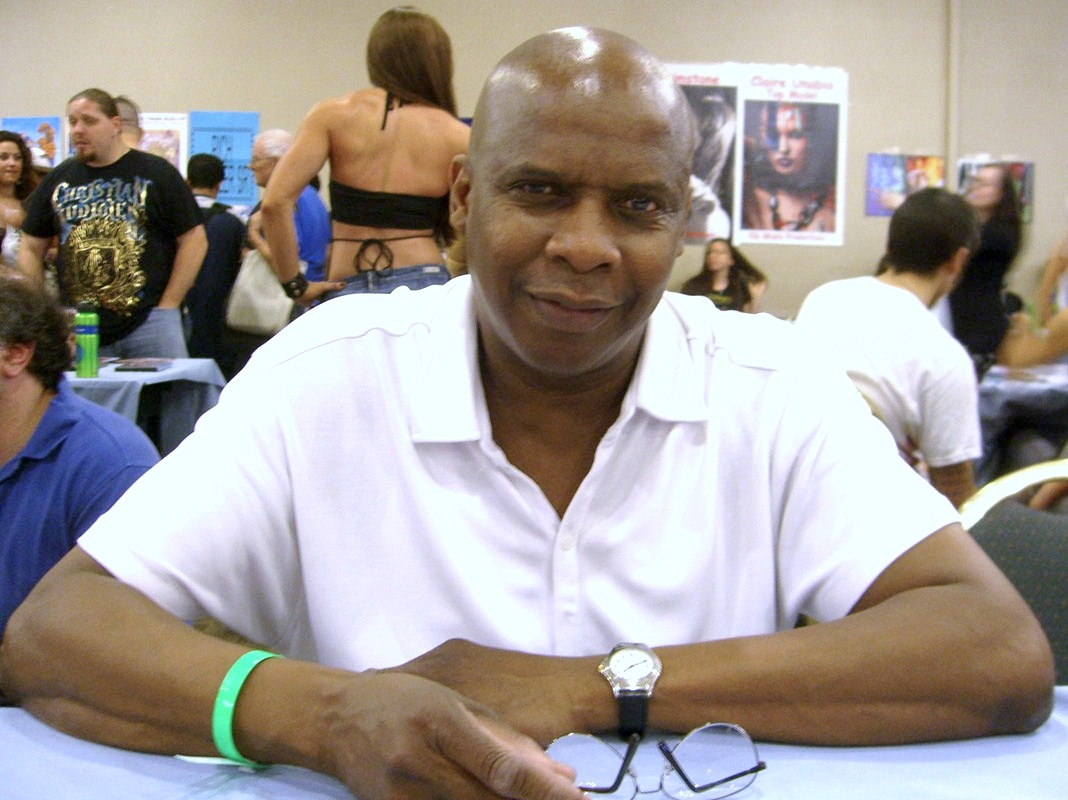 Actor David Harris at the Big Apple Summer Sizzler in Manhattan, June 13, 2009.